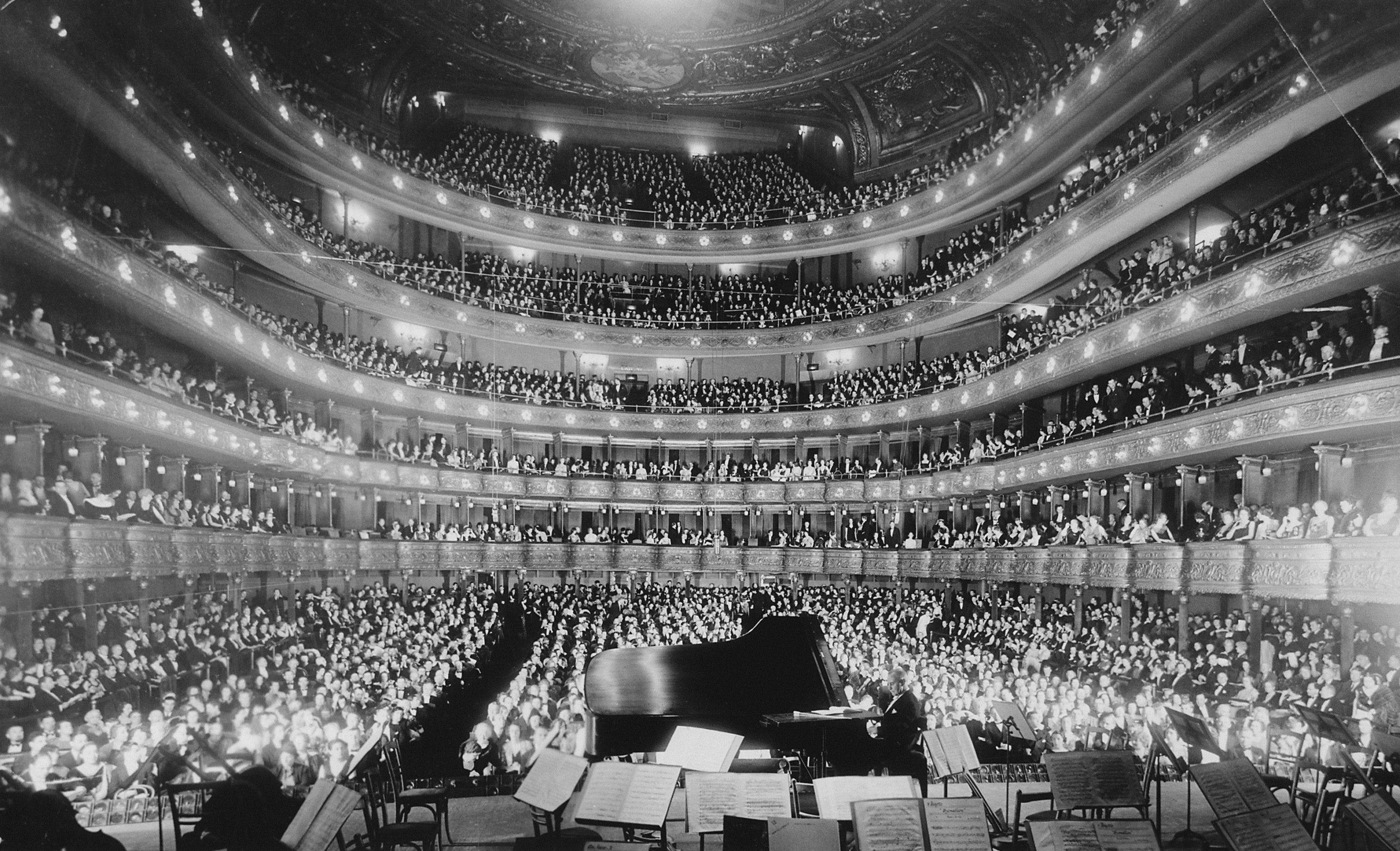 The former Metropolitan Opera House (39th St) in New York City. A full house, seen from the rear of the stage, at the Metropolitan Opera House for a concert by pianist Josef Hofmann, November 28, 1937.